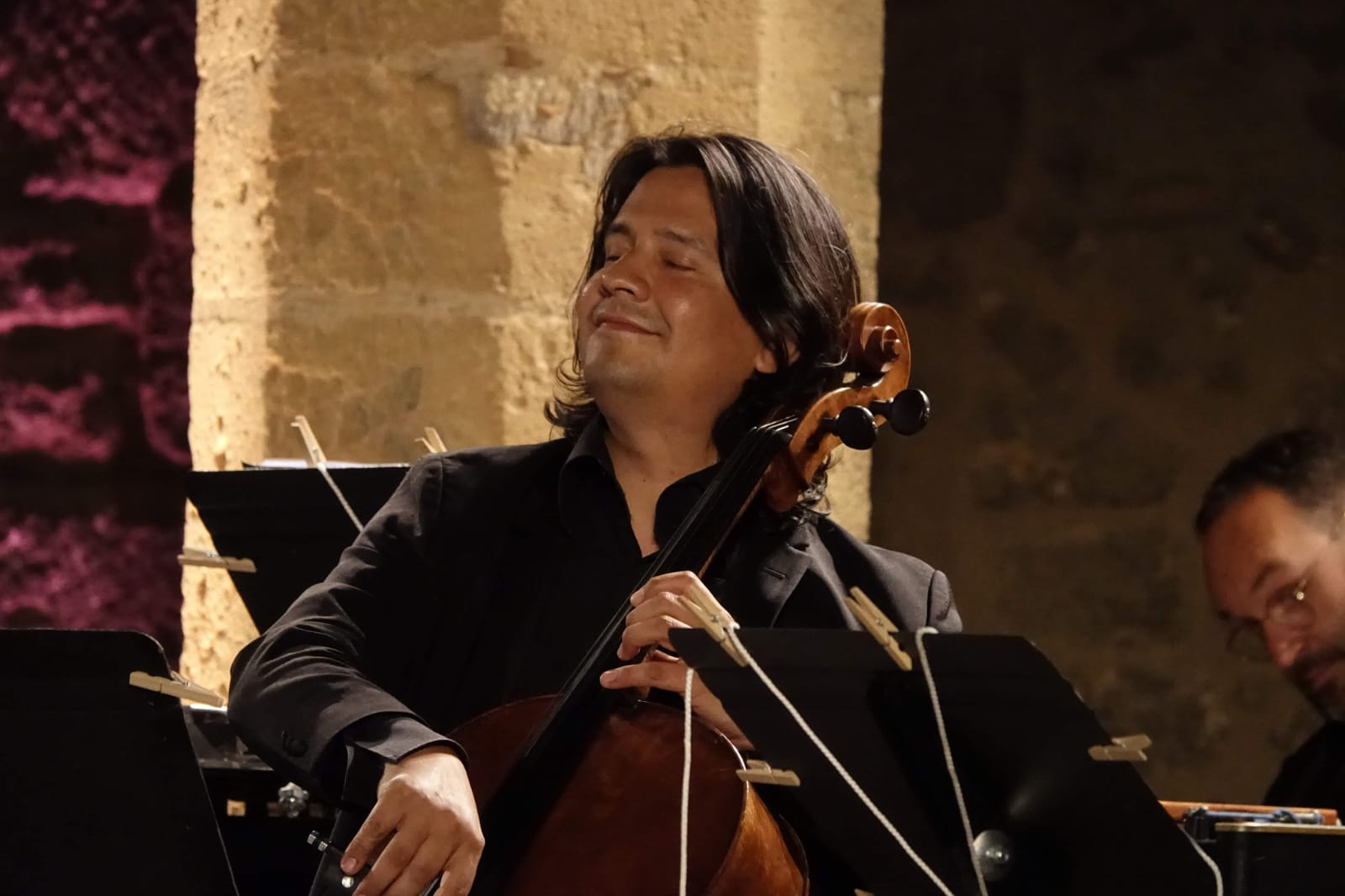 Claudio Bohorquez 2020 Festival international de musique de chambre de Salon-de-Provence